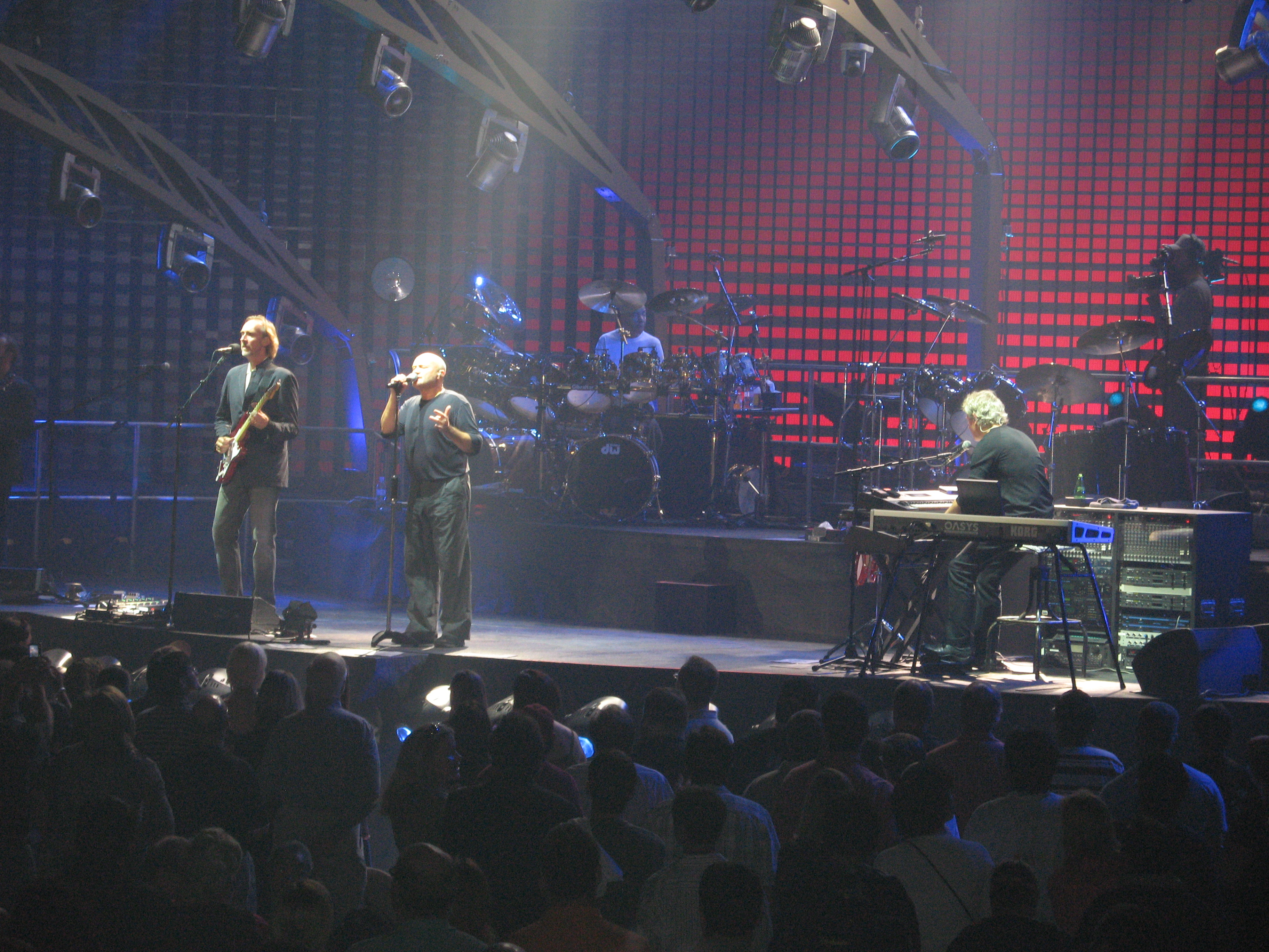 Genesis concert at the Verizon Center, Washington, D.C., USA. Performing "The Carpet Crawlers".